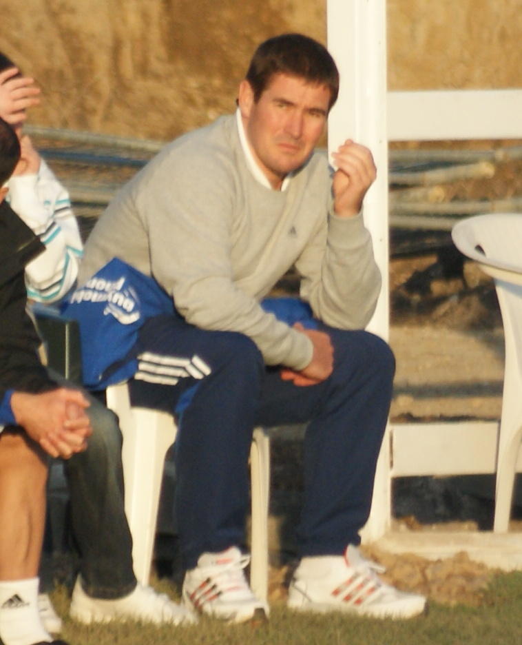 Nigel Clough in VERY temporary dugout!